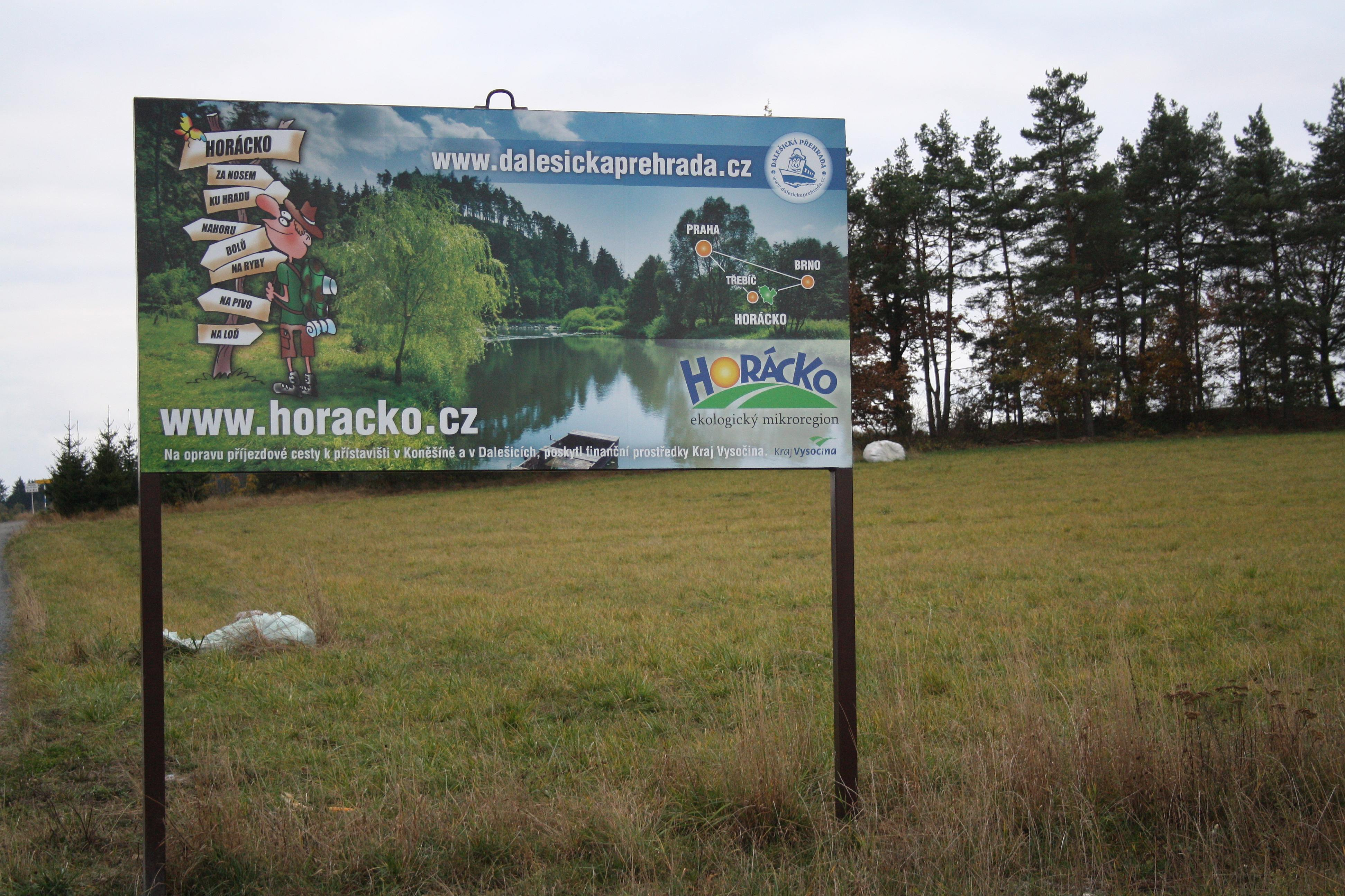 Information panel about Horácko microregion in Koněšín, Czech Republic.